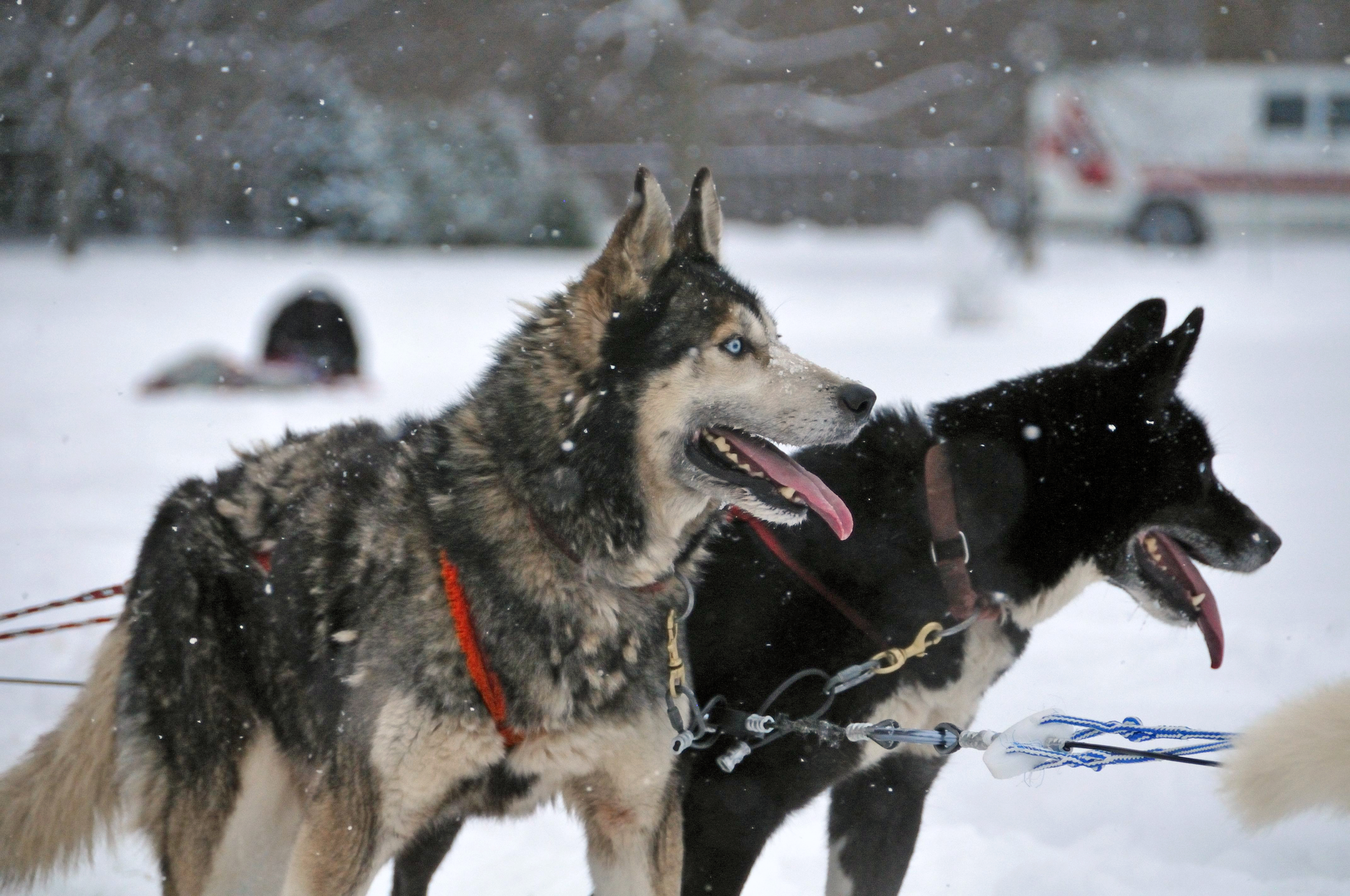 Dogsled huskies at rest after racing. Governor General's winter party, Ottawa, Canada.